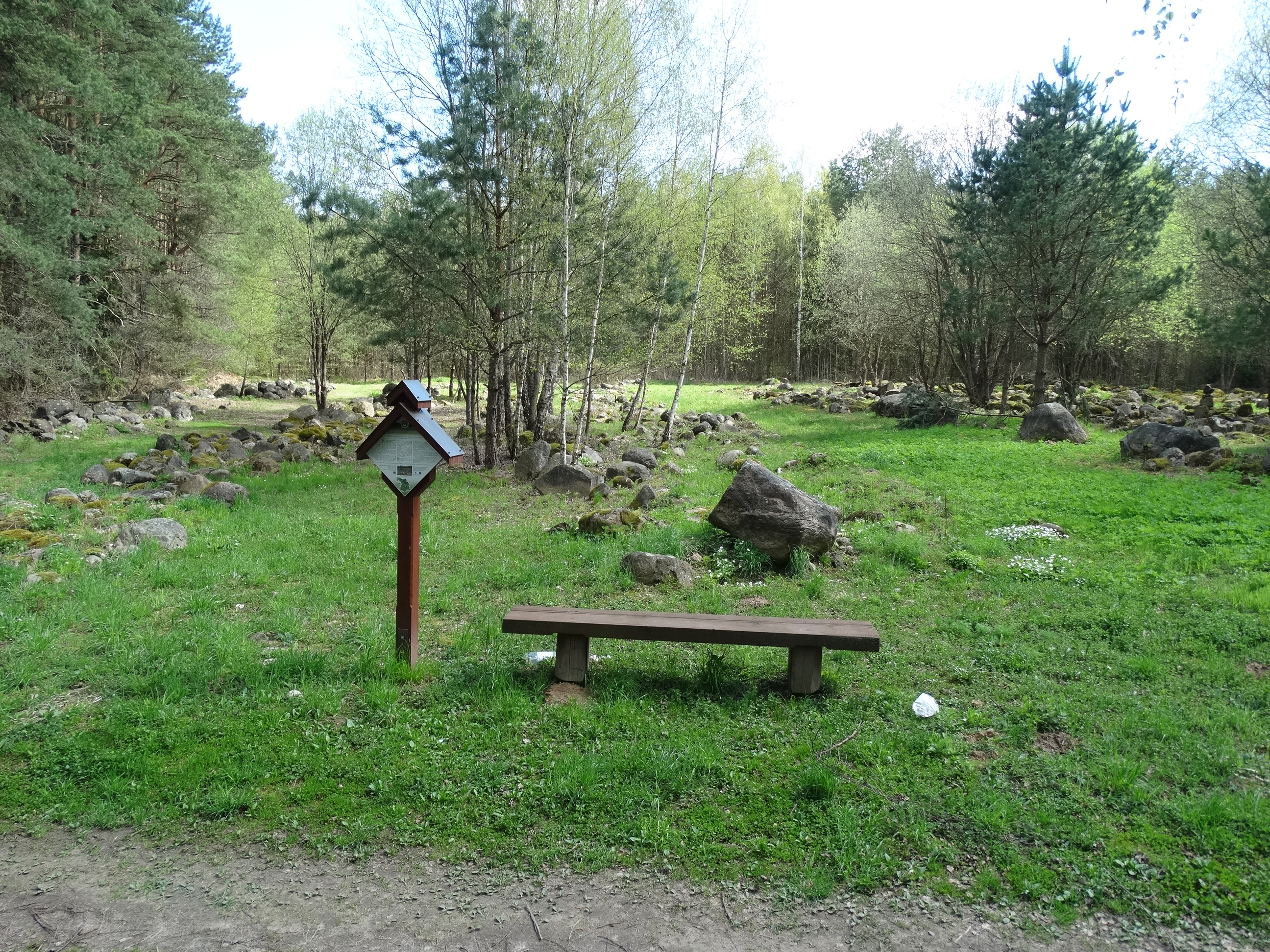 Heaps of stones by Rimašiai, Šalčininkai District, Lithuania